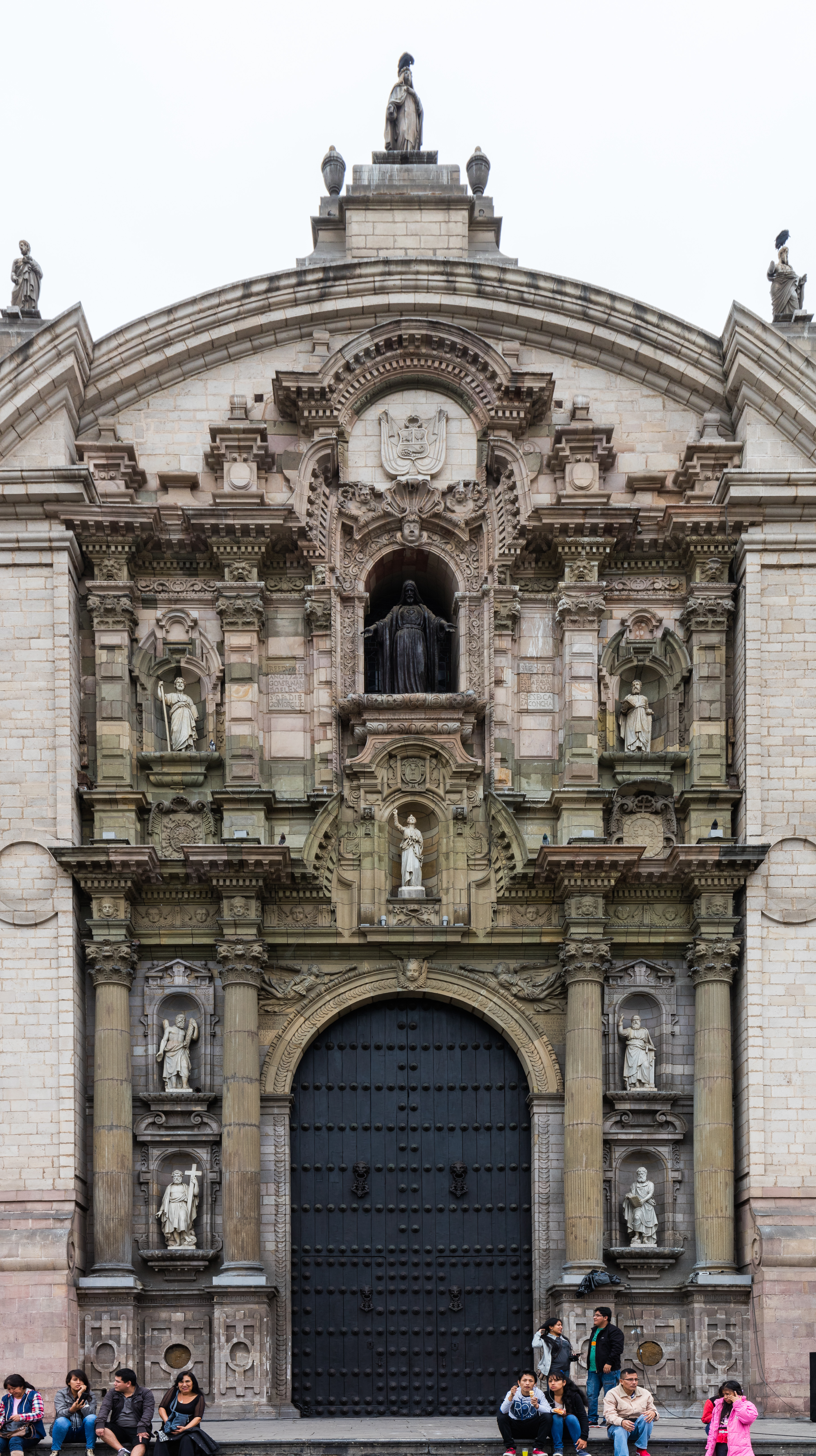 Lima Cathedral, Peru